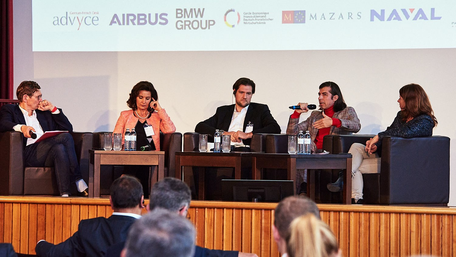 Dominque Seux, Evelyne Freitag, Andreas Kaplan, Anna Christmann